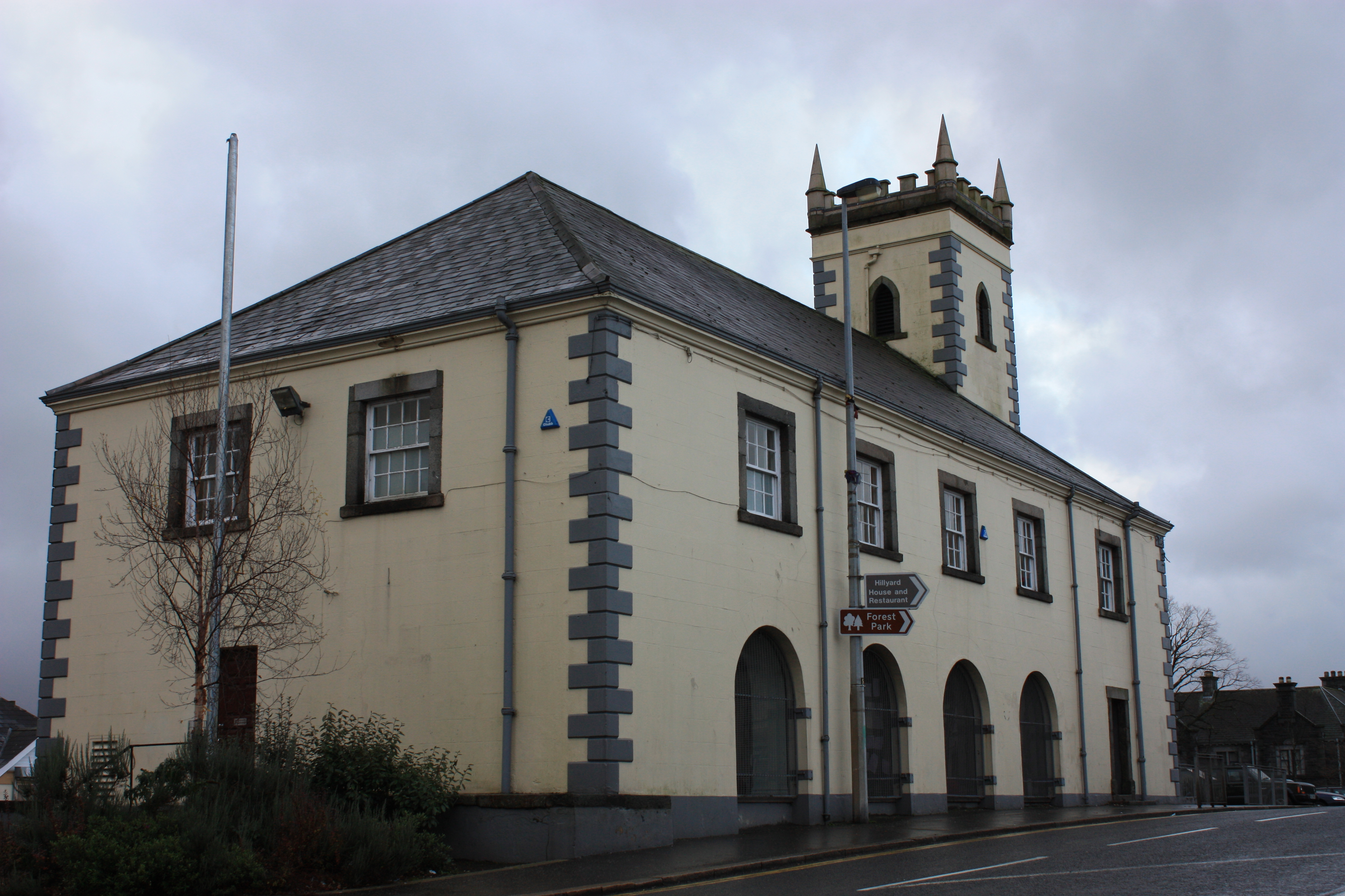 Old Market House (library), Upper Square, Castlewellan, County Down, Northern Ireland, December 2009